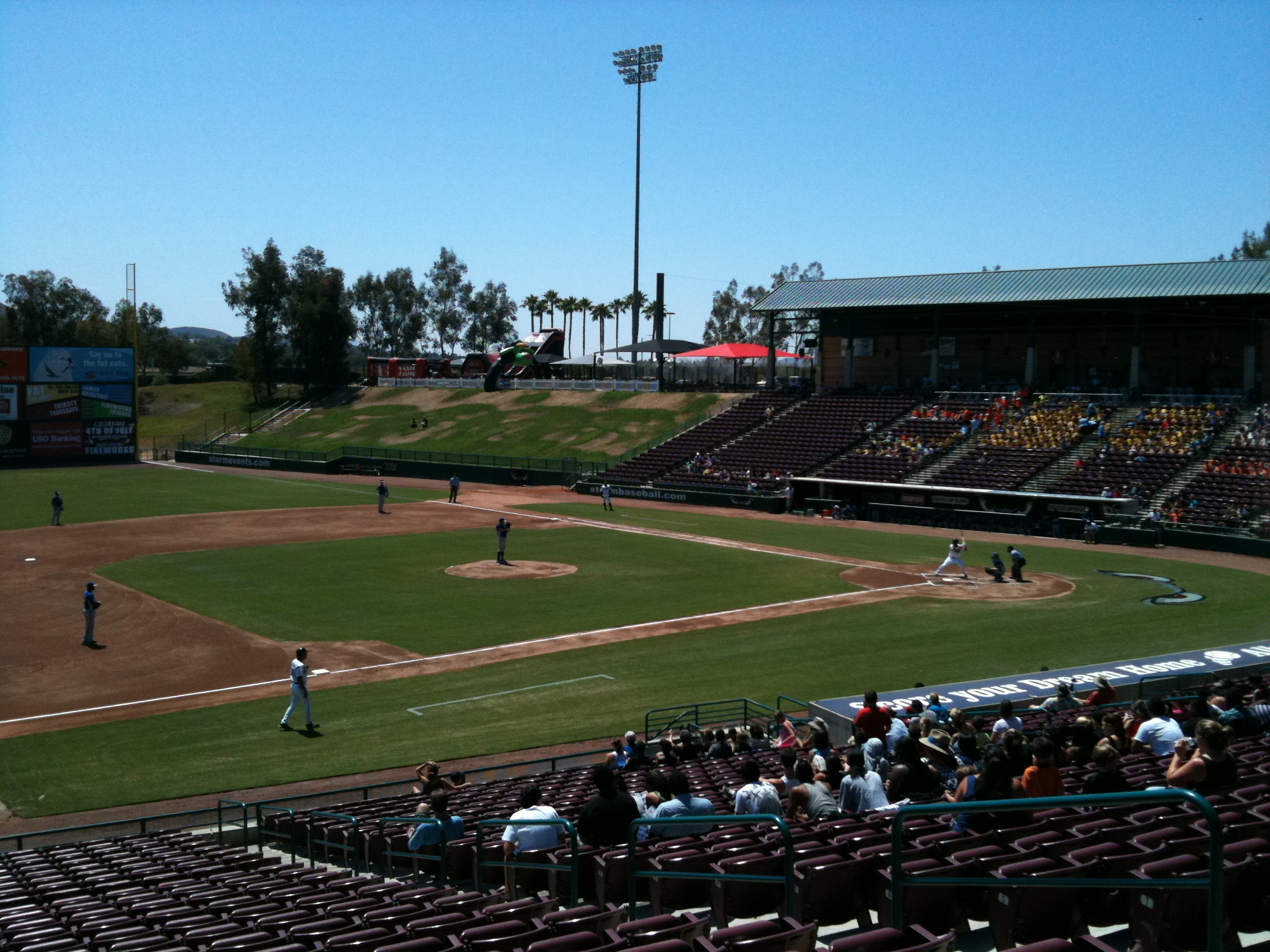 Lake Elsinore Diamond